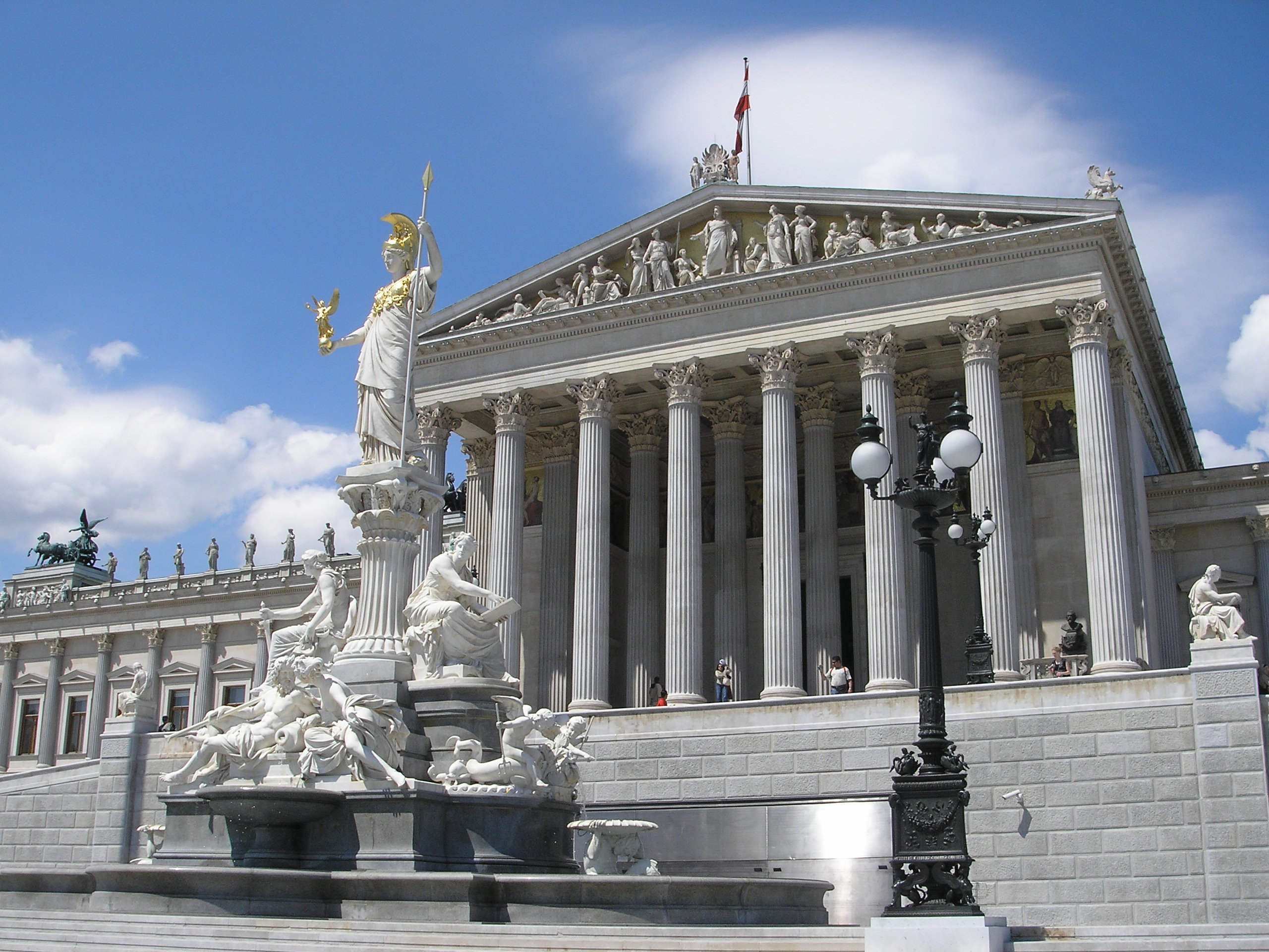 Austria, Vienna, Austrian Parliament Building